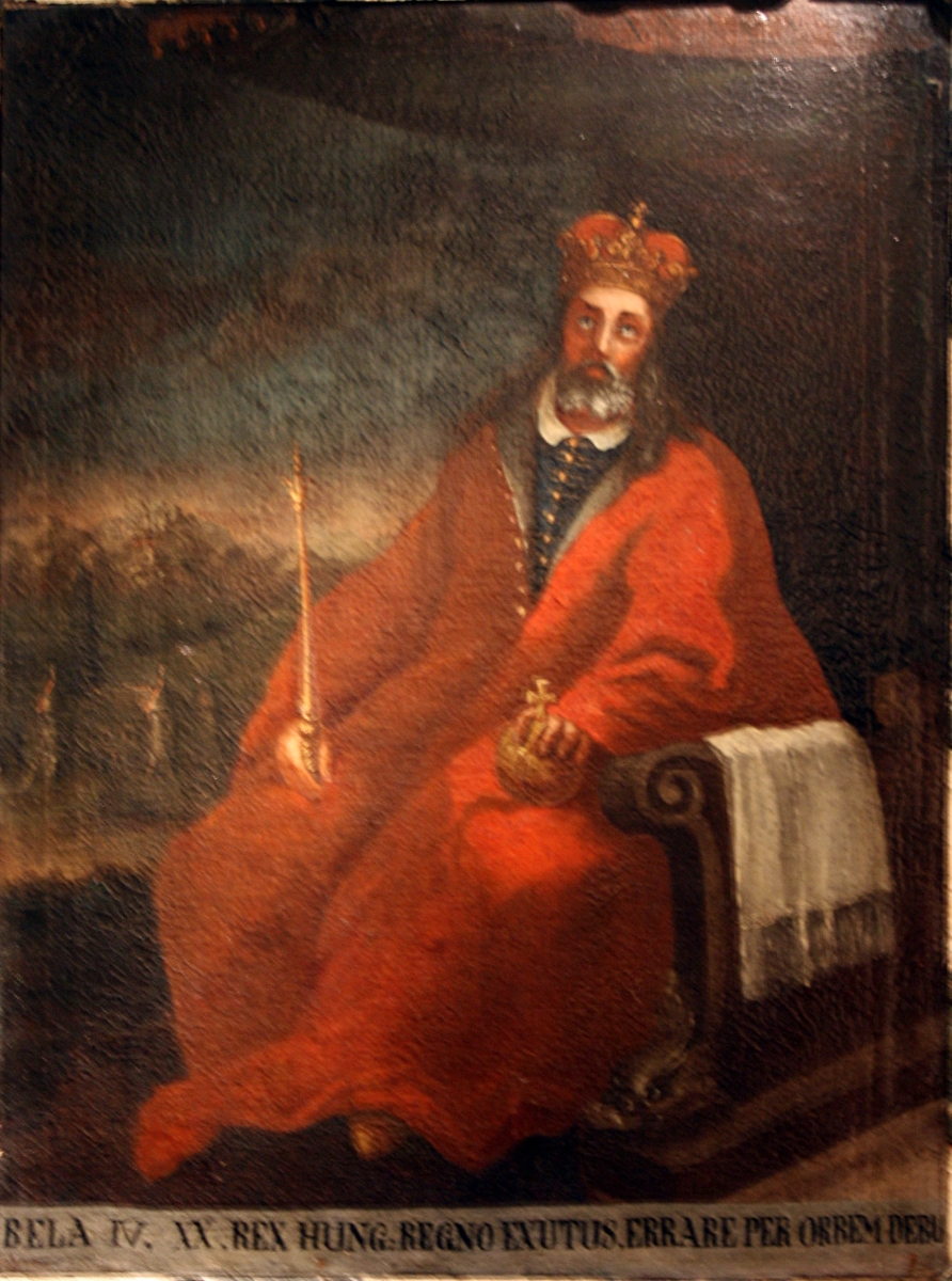 Painting of Béla IV of Hungary in Zagreb City Museum